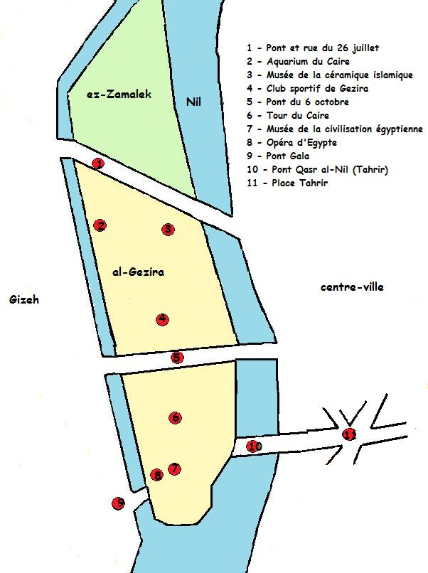 Map of Gezira Island on the Nile River in central Cairo, Egypt. With the Districts of Gezira (tan) and Zamalek (green) indicated, and local landmarks and bridges number keyed to the legend.